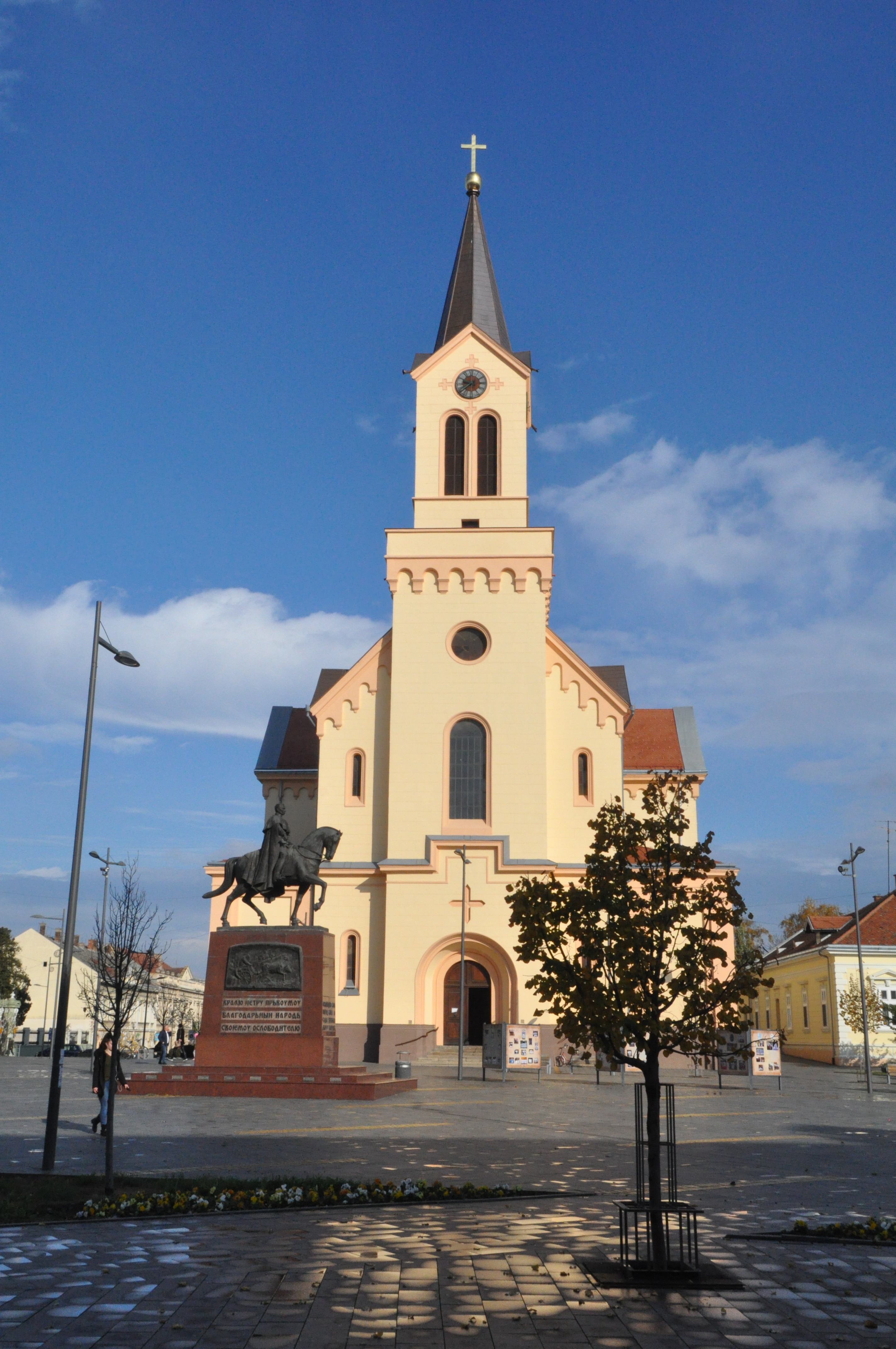 Cathedral of Saint John of Nepomuk in Zrenjanin